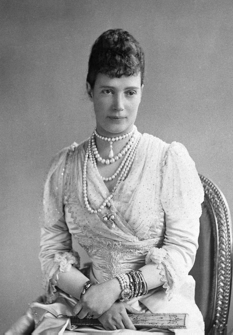 Empress Marie Feodorovna: three quarters length portrait, seated, wearing multi-stringed necklace, holidng a fan in lap.